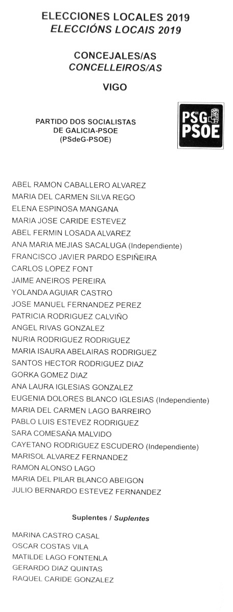 See title.